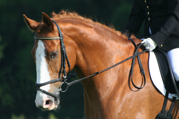 A dressage horse with flash noseband, which mane is all platted up.